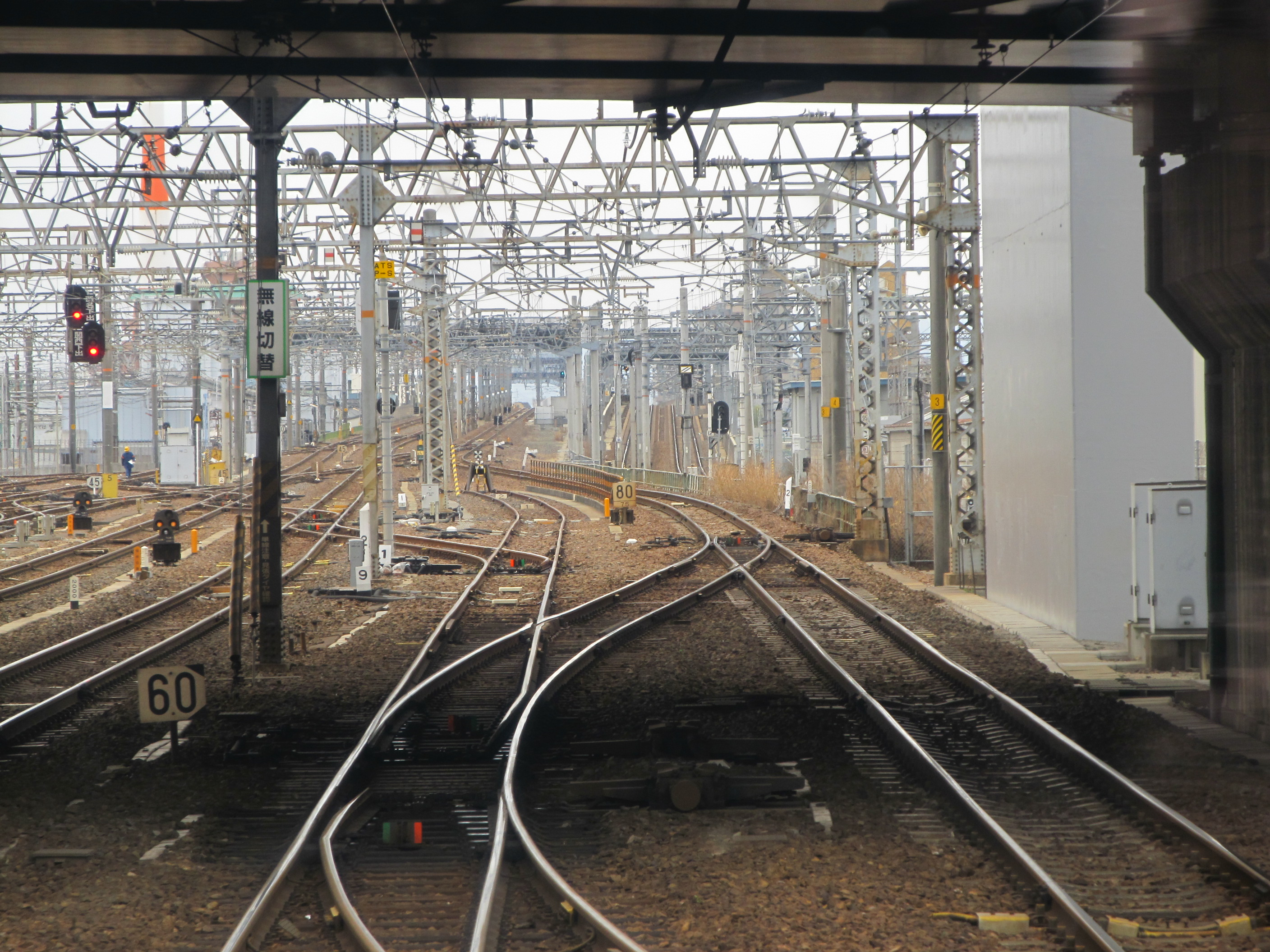 Central Japan Railway Kansai Line Sasashima Signal Box